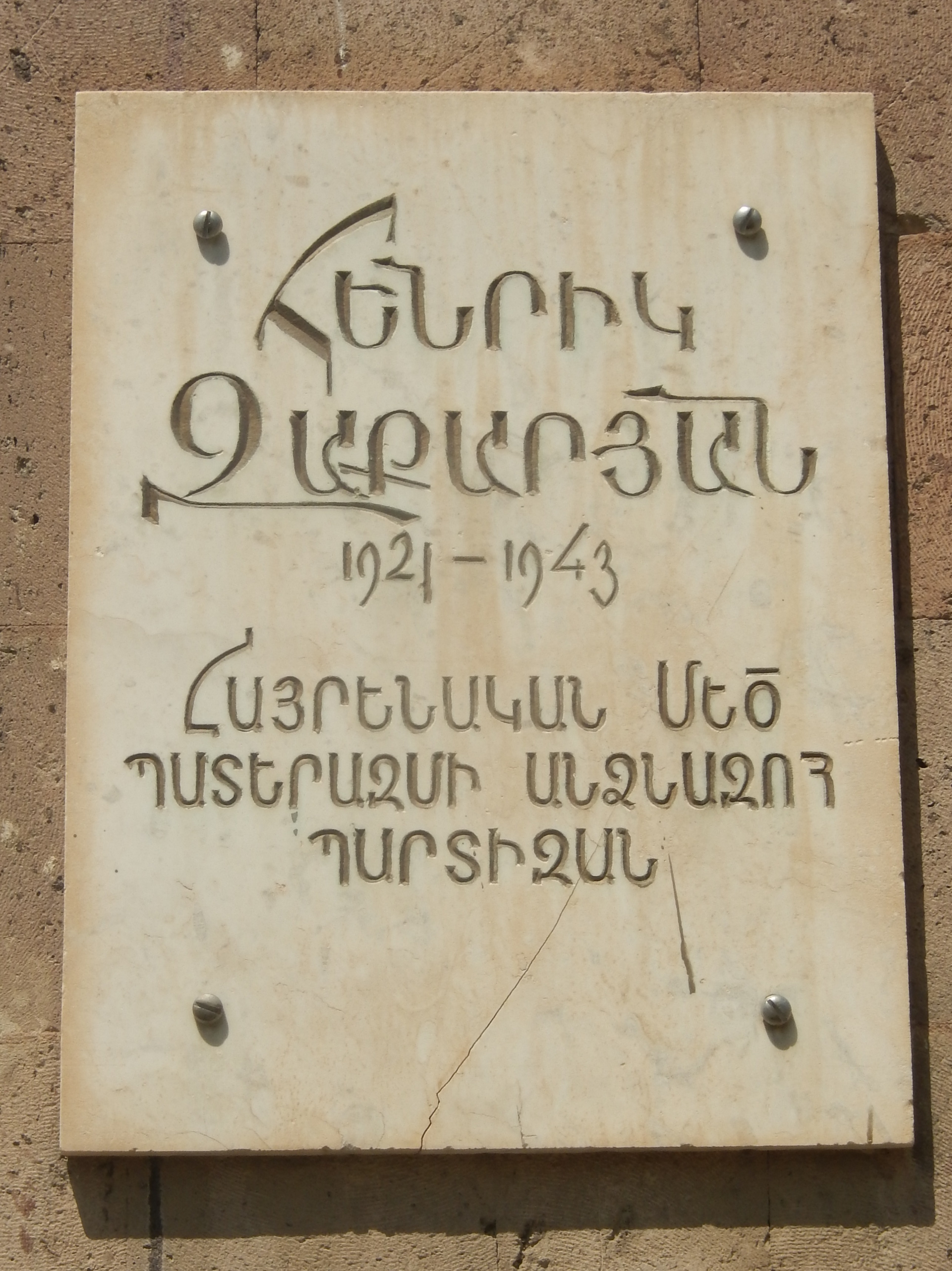 Plaque of Henrik Shaqaryan 1/35